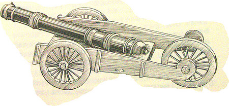 Red Nomad General Cannon